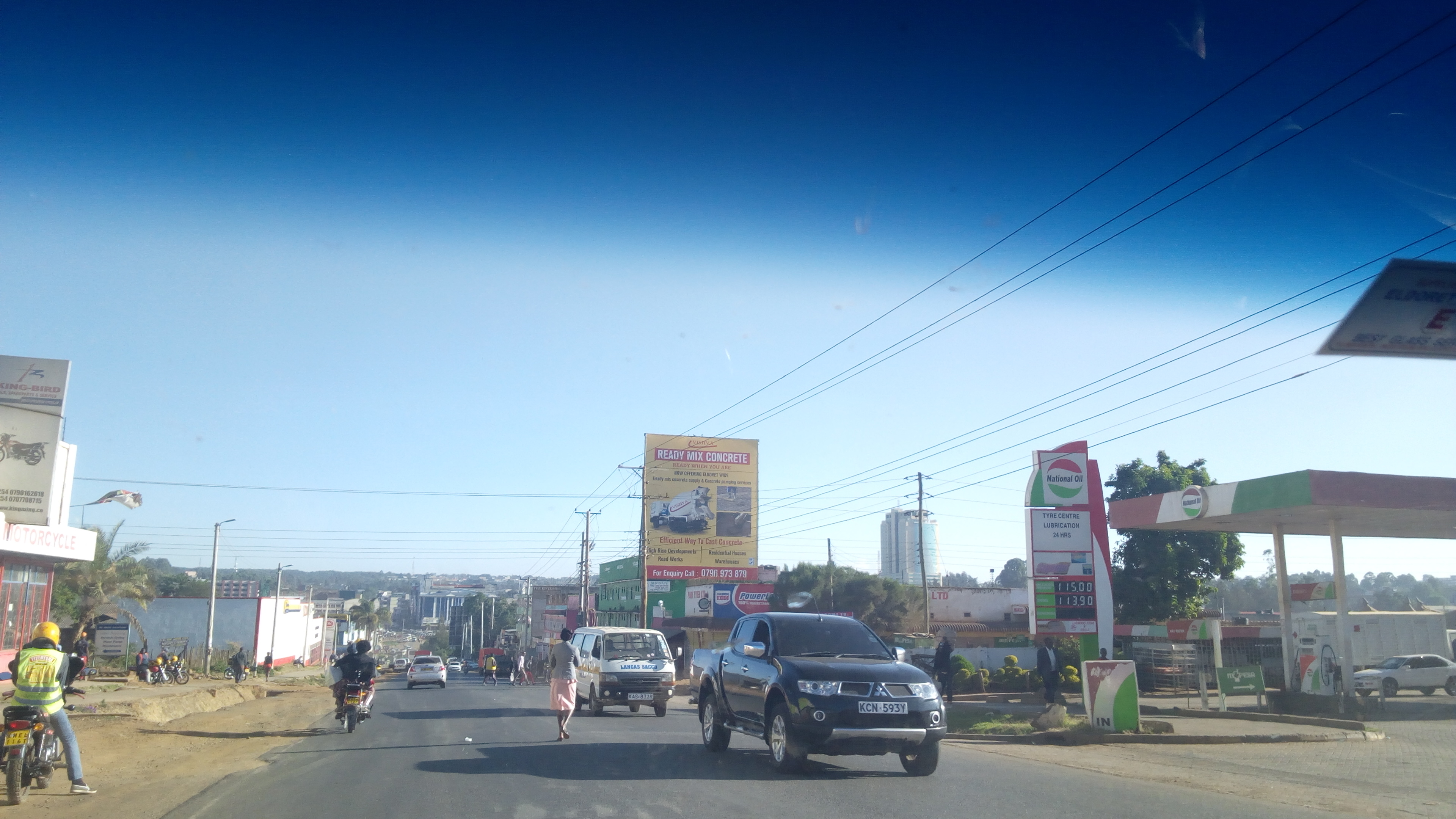 Eldoret is one of the key towns in the North Rift Region of Kenya. It is one of the few towns that doesn't experience heavy traffic jams. This is an image with the theme "Africa on the Move or Transport" from: Kenya